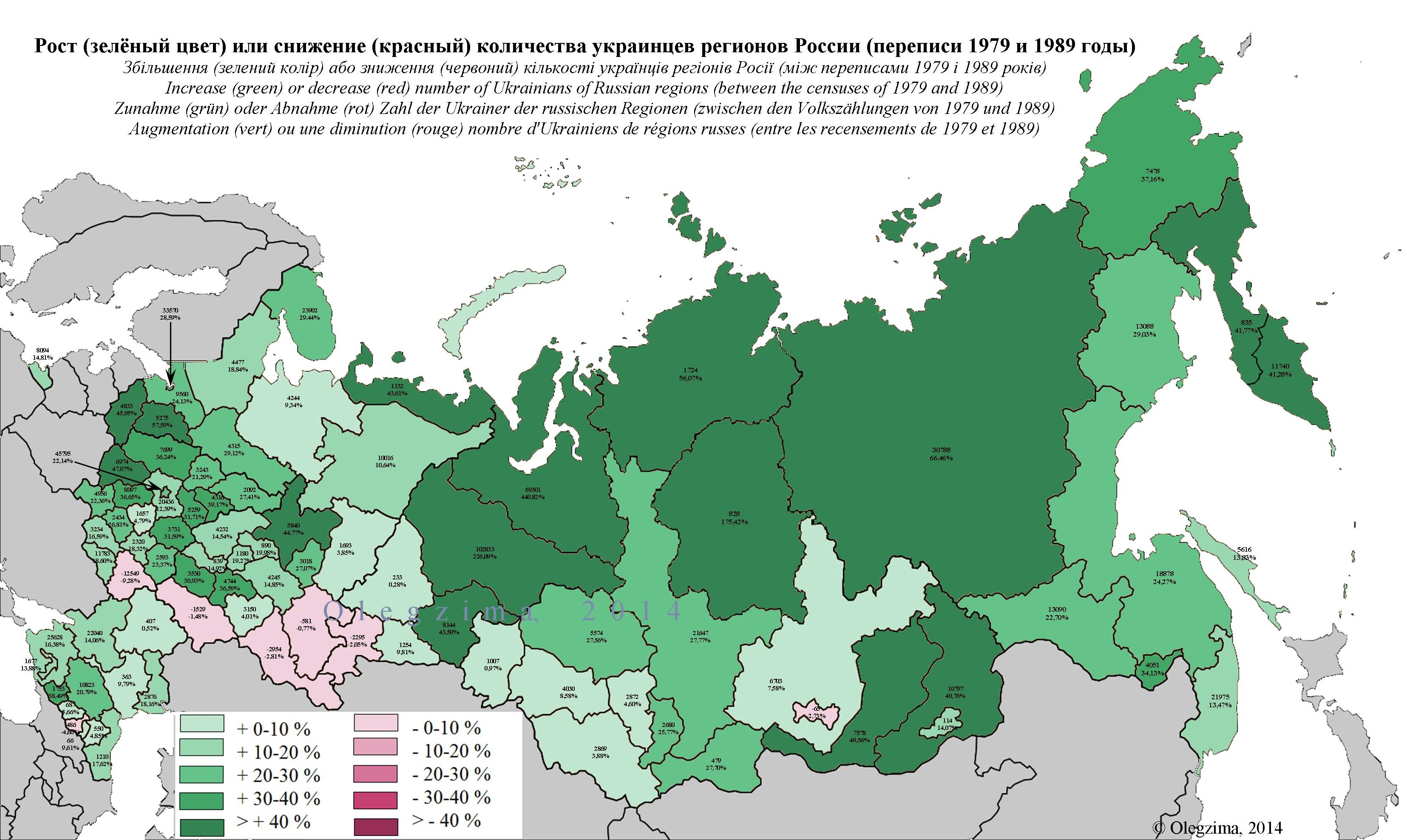 Increase (green) or decrease (red) number of Ukrainians of Russian regions (between the censuses of 1979 and 1989)